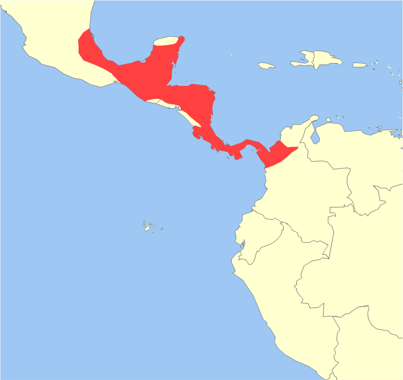 Geographic Distribution of Central American Red Brocket (Mazama temama).